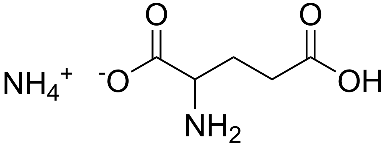 Chemical structure of ammonium glutamate (monoammonium glutamate)